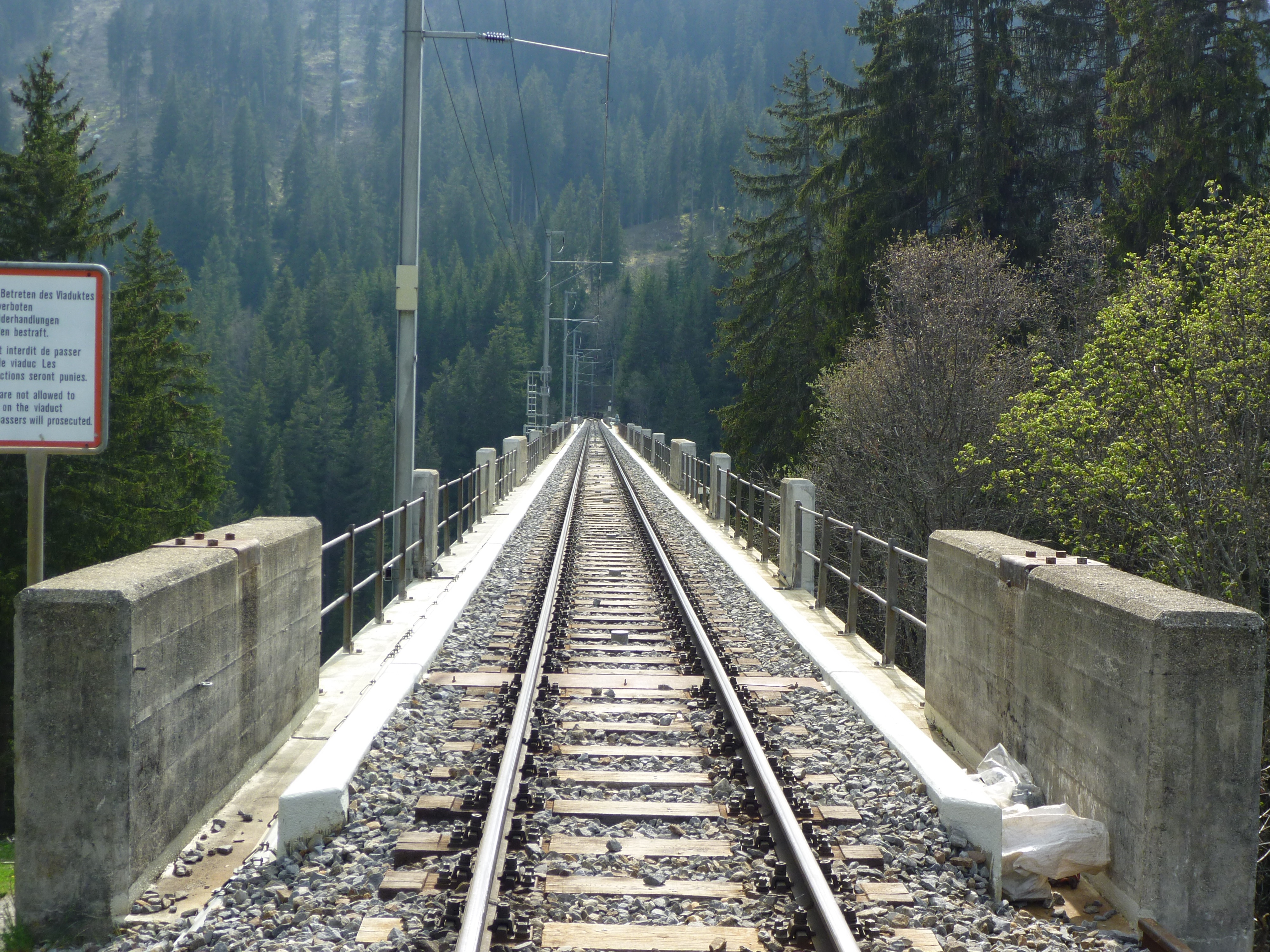 rail track of Langwieser Viaduct, Chur-Arosa railway